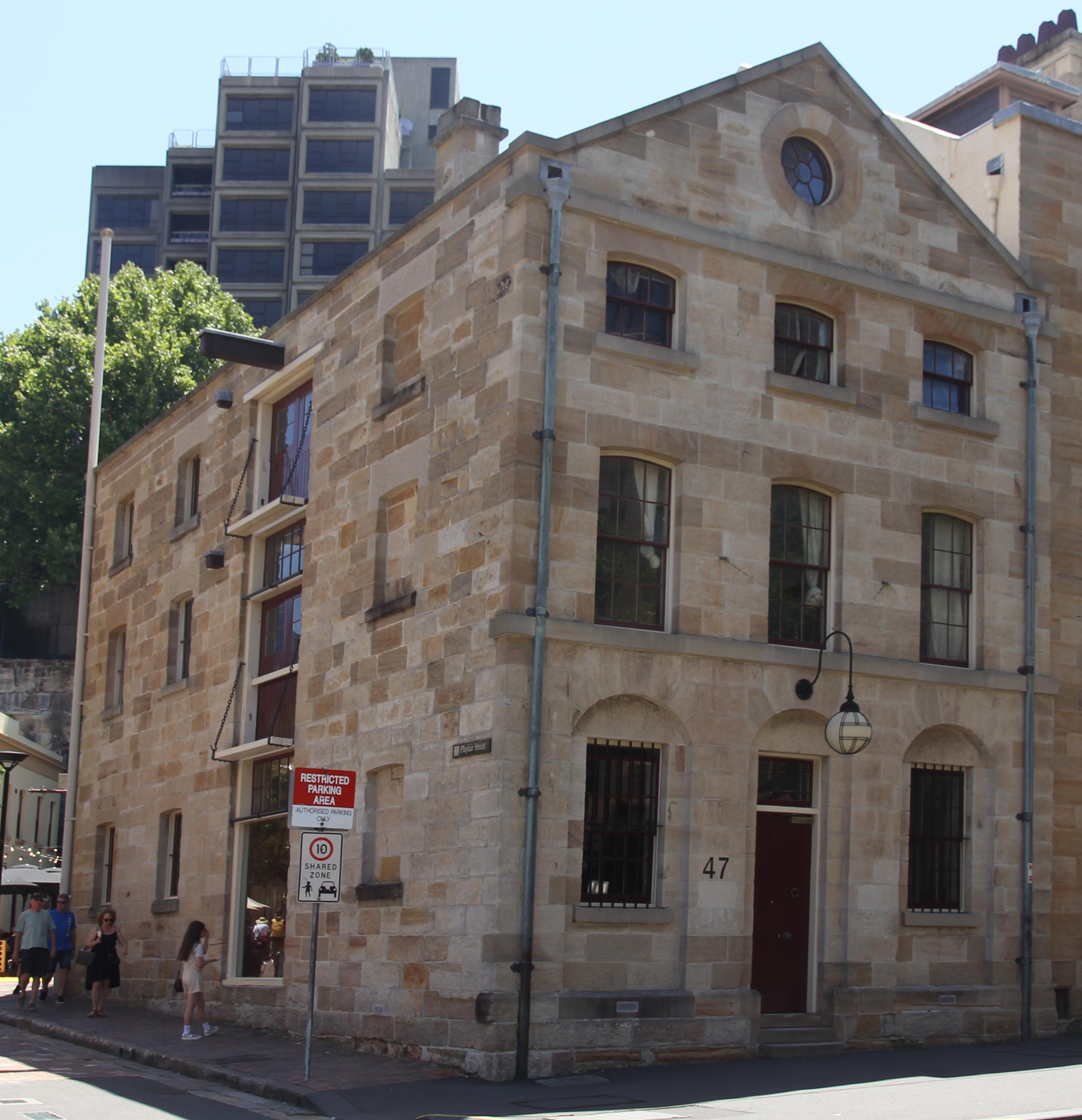 Union Bond Store on the corner of Playfair and George Streets in The Rocks in the City of Sydney, New South Wales, Australia